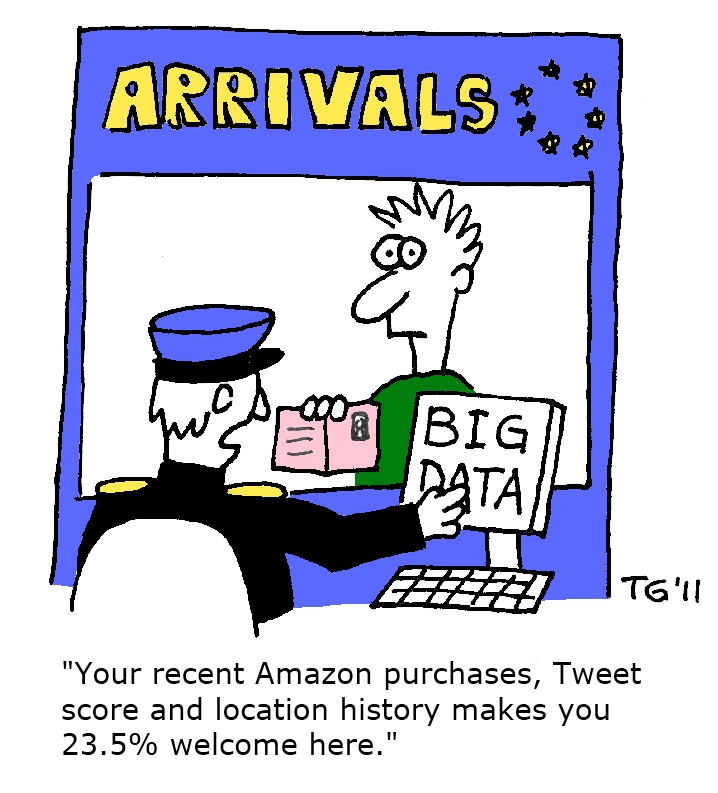 My first cartoon in ages. (Arrivals. "Your recent Amazon purchases, Tweet score and location history makes you 23.5% welcome here")